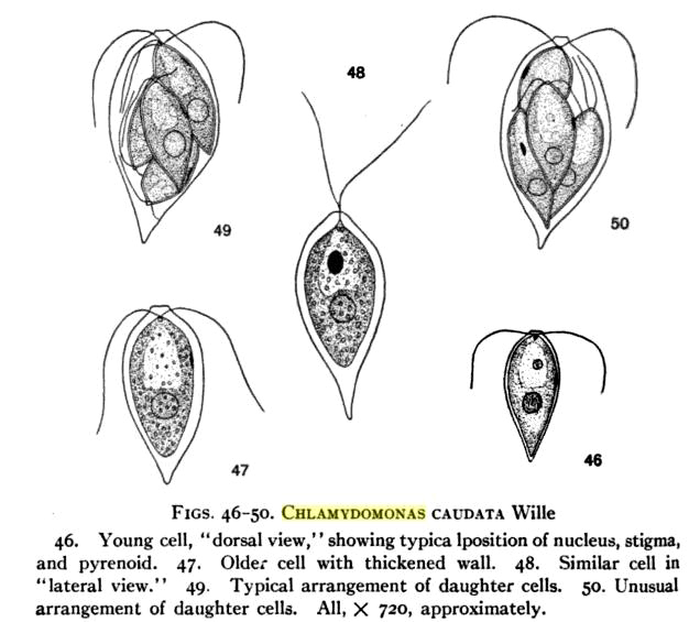 Figs. 46-50. Chlamydomonas Caudata Wille 46. Young cell, "dorsal view", showing typical position of nucleus, stigma, and pyrenoid. 47. Older cell with thickened wall. 48. Similar cell in "lateral view." 49. Typical arrangement of daughter cells. 50. Unusual arrangement of daughter cells. All, X 720, approximately.